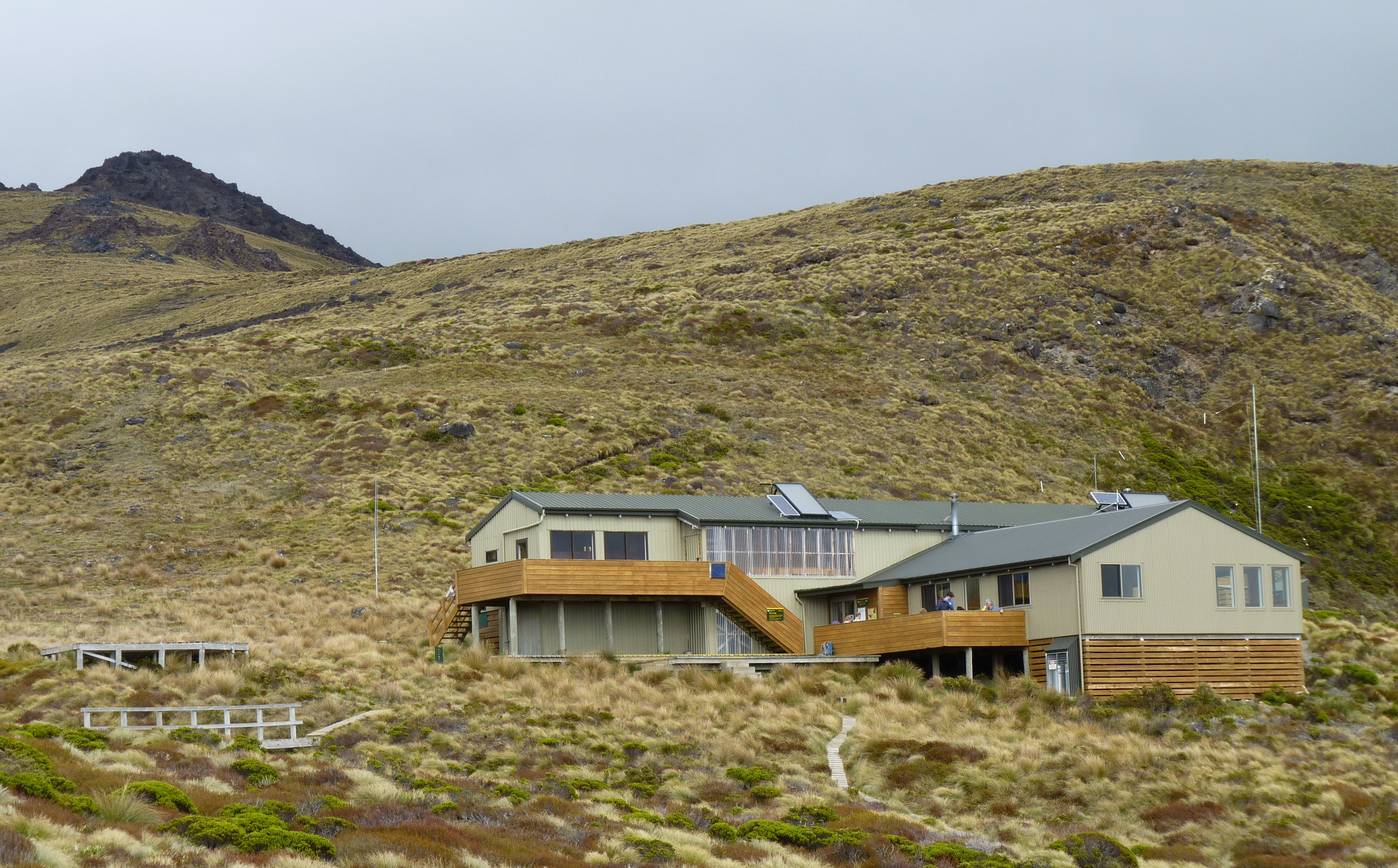 Kepler Track, South Island, New Zealand